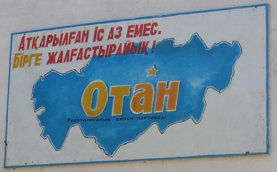 A sign for the President's ruling Otan (Fatherland) Party in Turkistan, Kazakhstan.